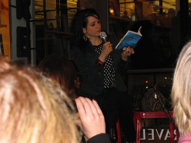 Writer Dr Chloe Aridjis at a book signing. My photo